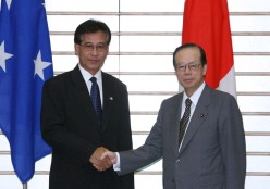 Manny Mori, President, met Yasuo Fukuda, Prime Minister, at the Prime Minister's Official Residence in Chiyoda Ward, Tōkyō Metropolis on November 30, 2007.